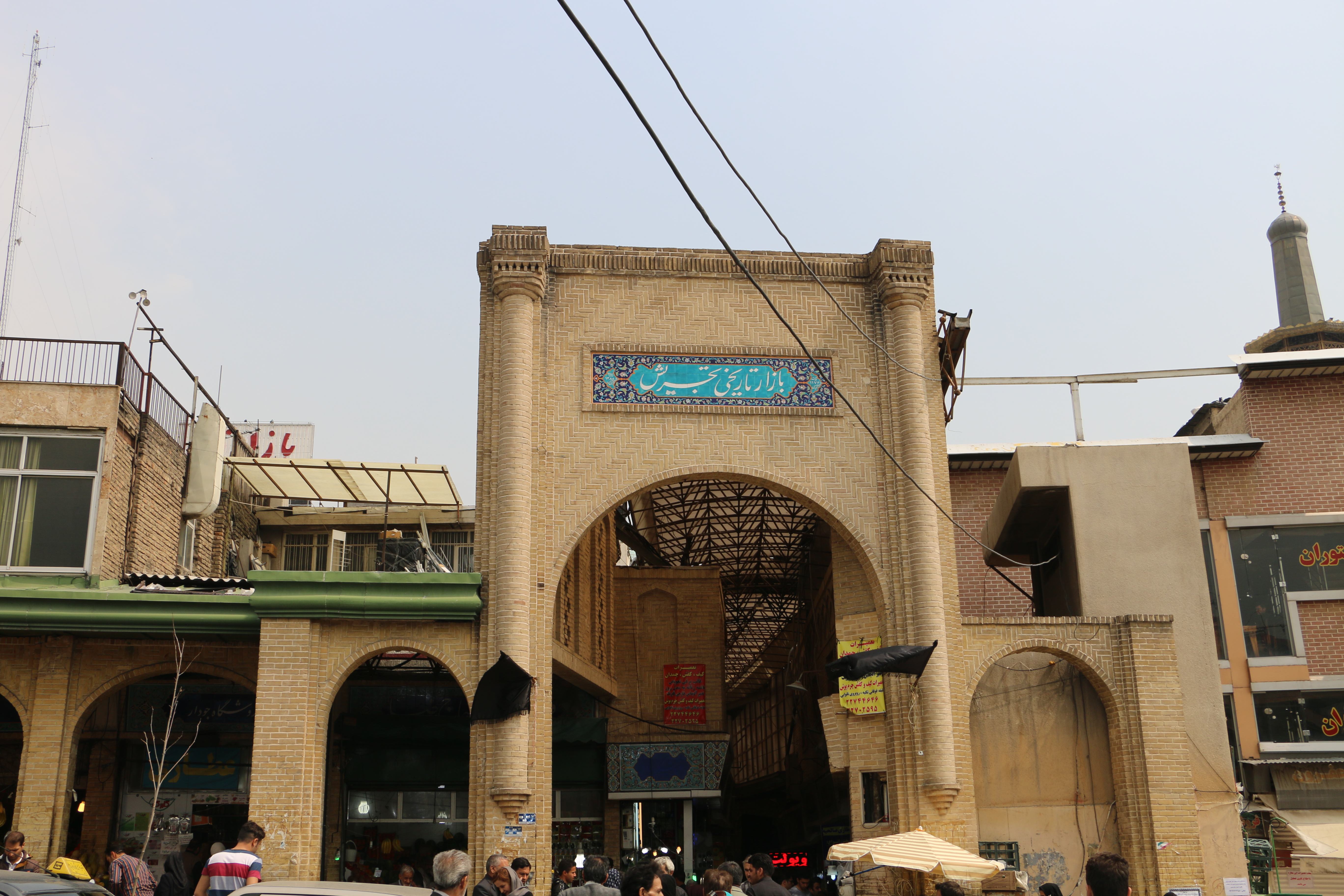 Entrance to the Tajrish Bazaar